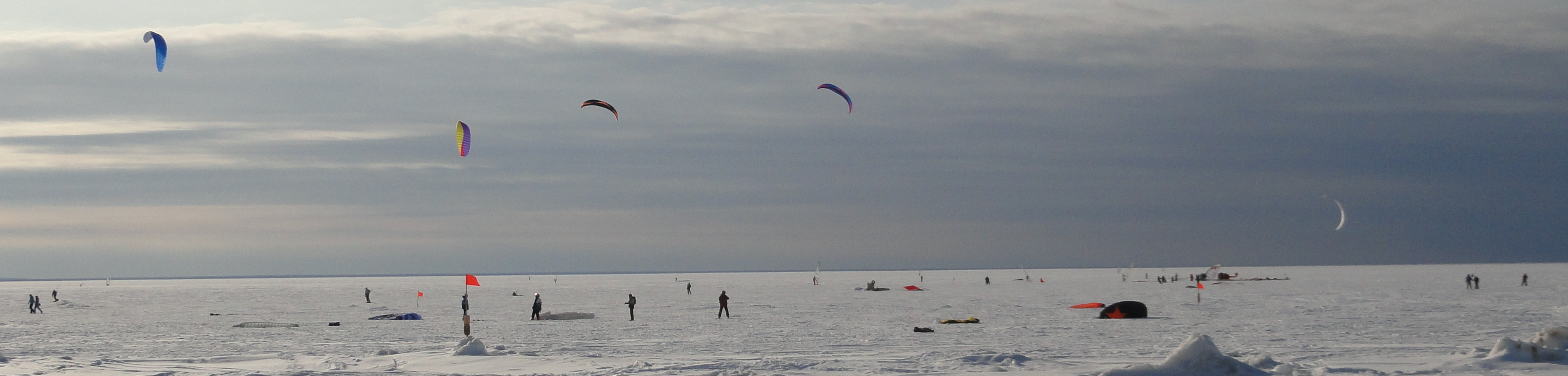 Kitesurfing in Russia